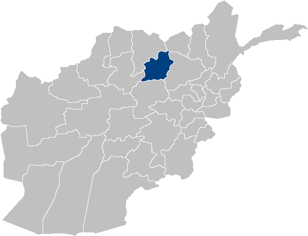 Location map for Samangan Province in Afghanistan. Original map source: Image:Afghanistan_provinces_blank.png